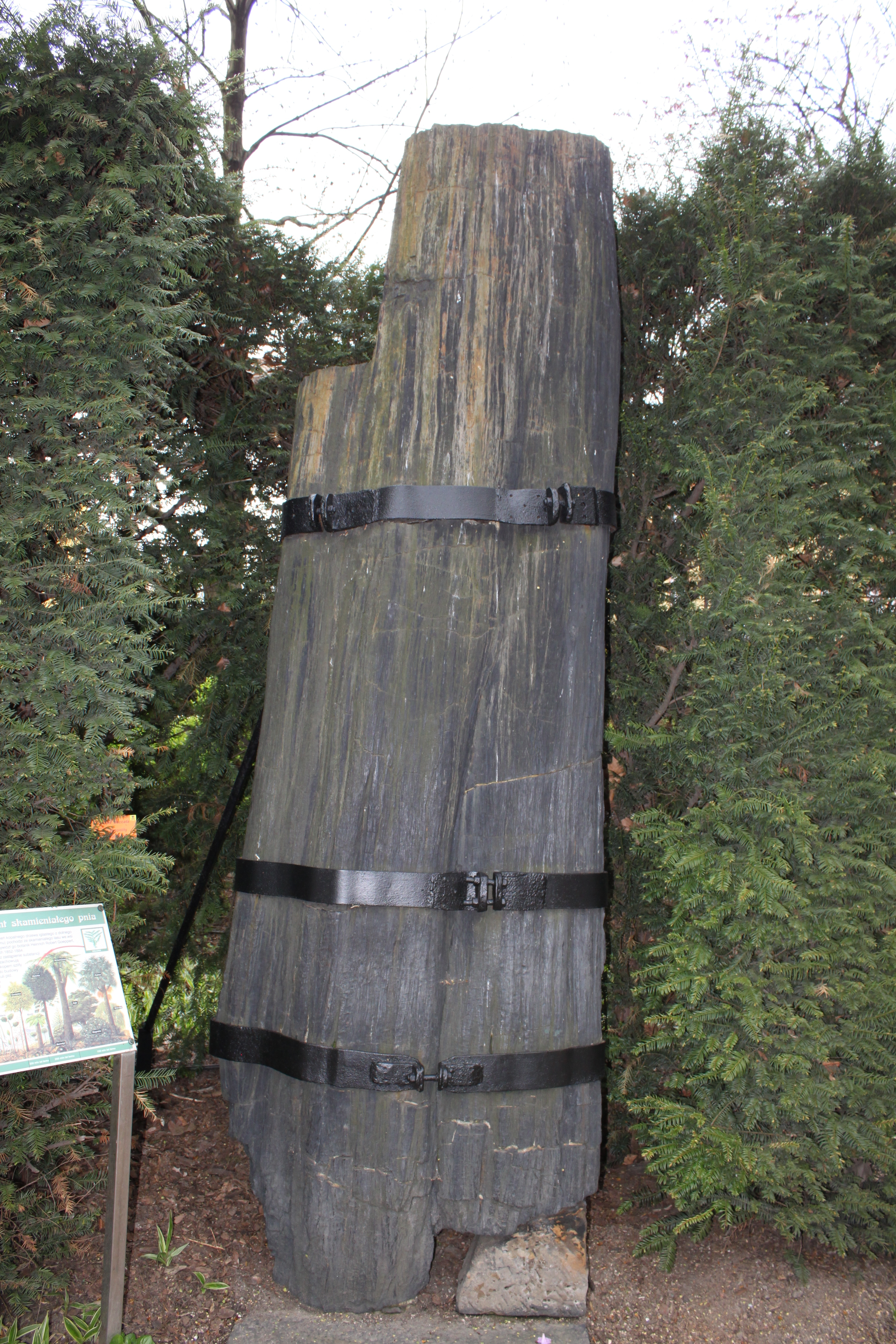 Fossil Walchia trunk (3,4 m high, ~270 million years old) in Botanical Garden in Wrocław